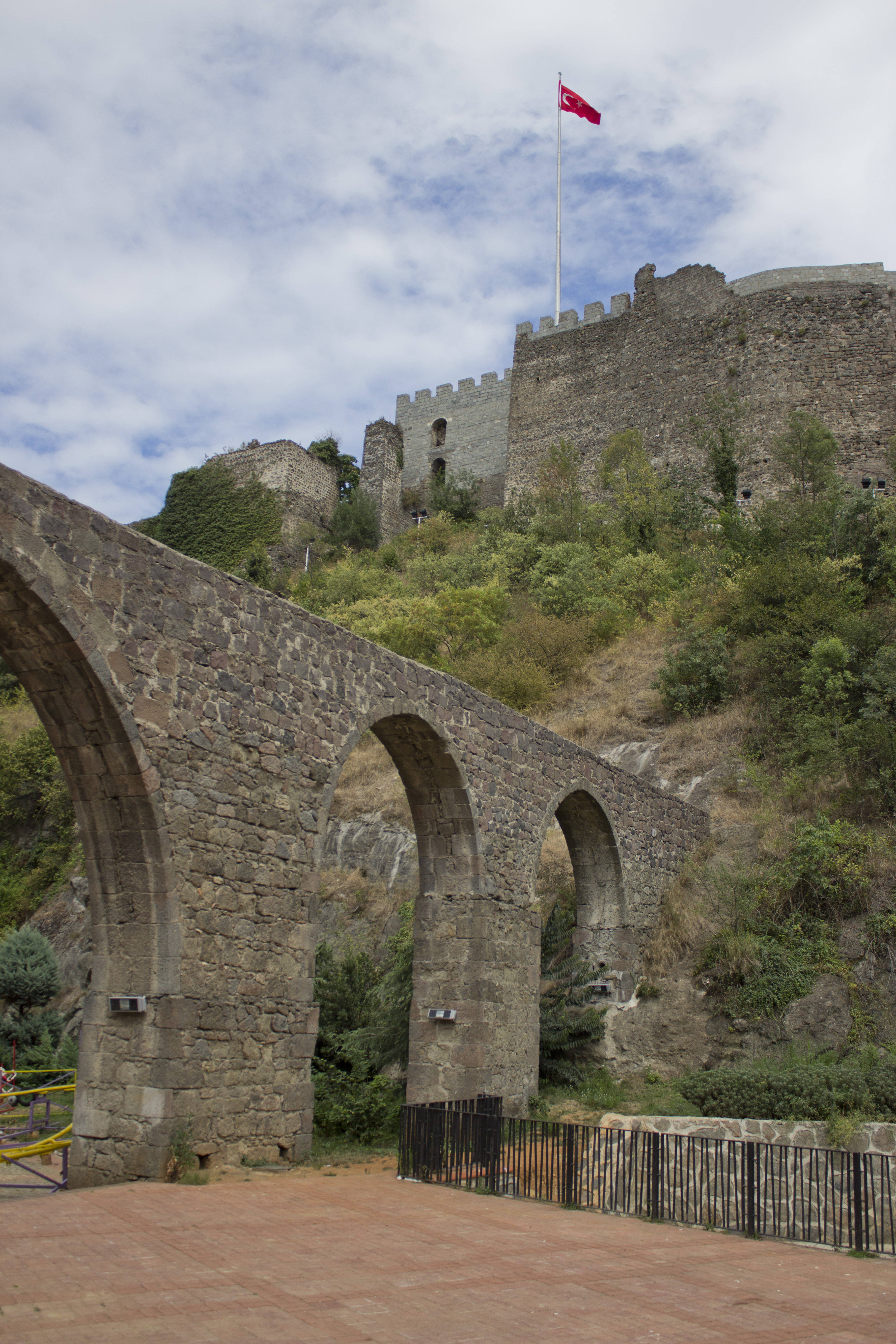 A view of part of the city walls and the byzantine aquaduct in Zagnos valley park, Trabzon, Turkey.